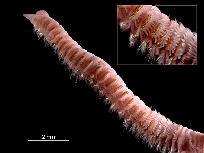 Habitus with detail of the 18th till 23rd parapods.